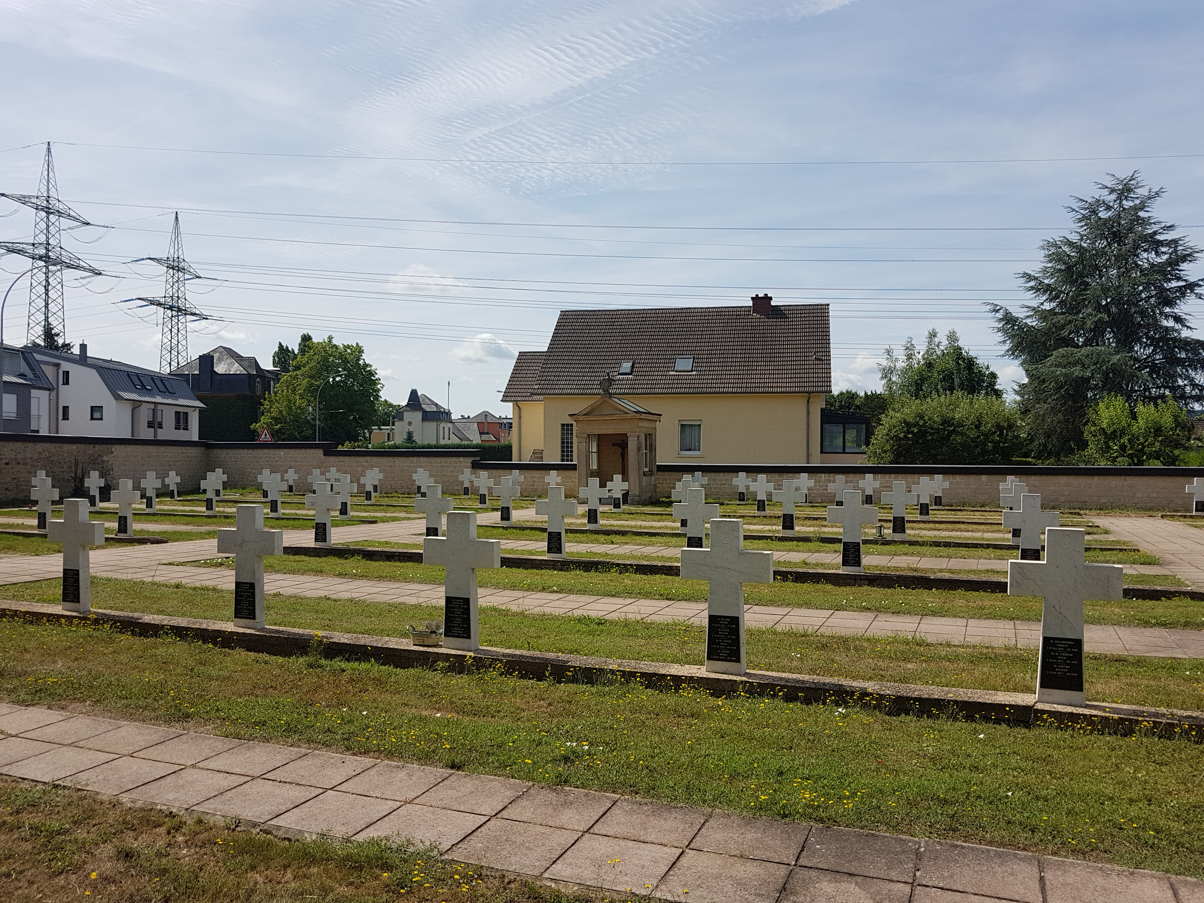 Cemetery of the Sisters of Christian Doctrine from Nancy (DC) in Heisdorf at the castle Heisdorf.